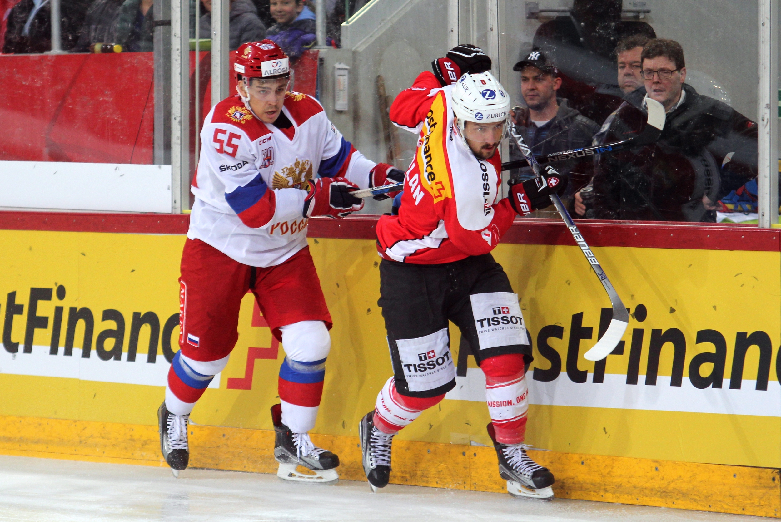 Bogdan Kiselevich (R 55), Vincent Praplan (S 8).